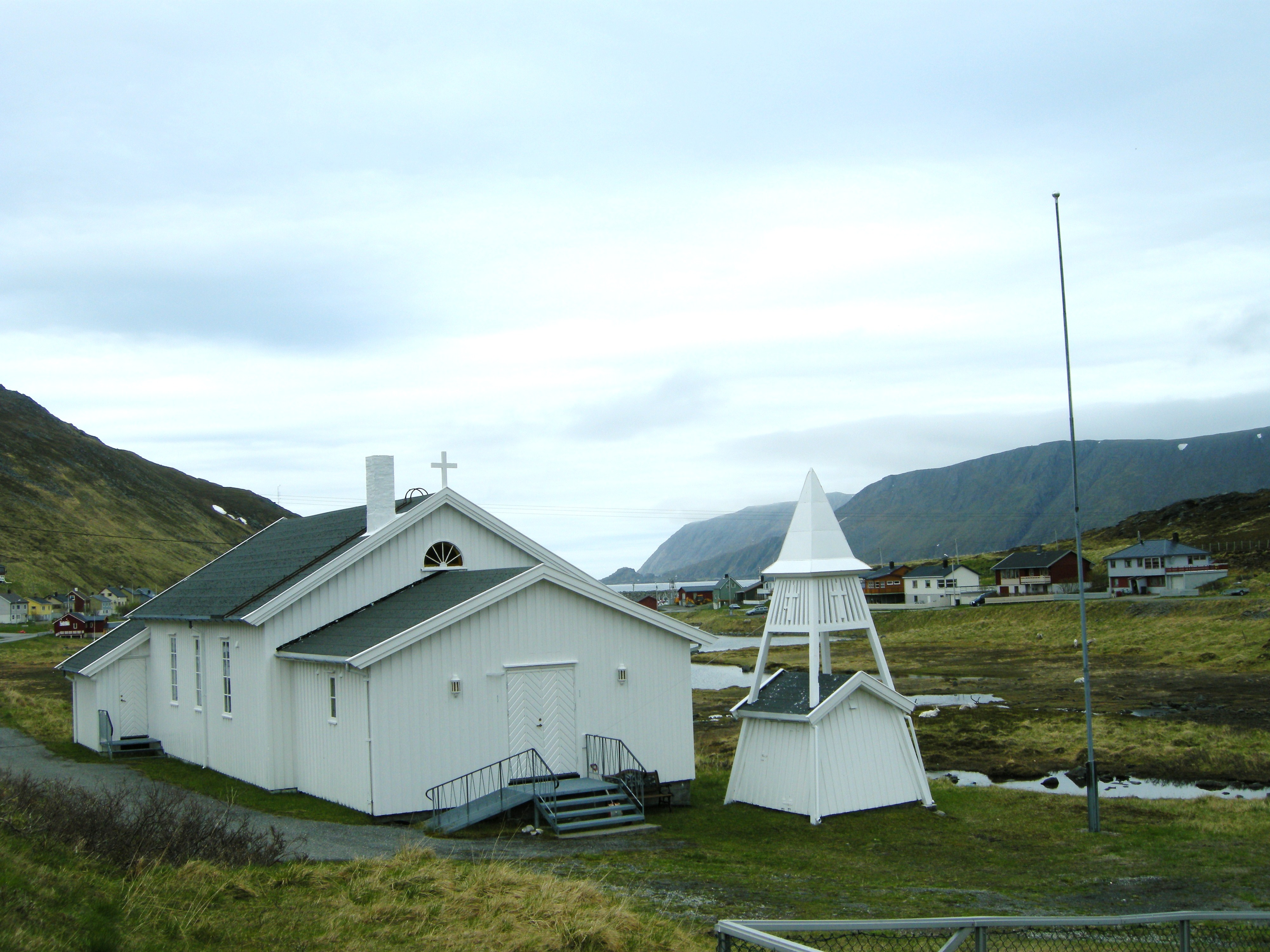 Skarsvåg church, Nordkapp kommune, Finnmark, Norway